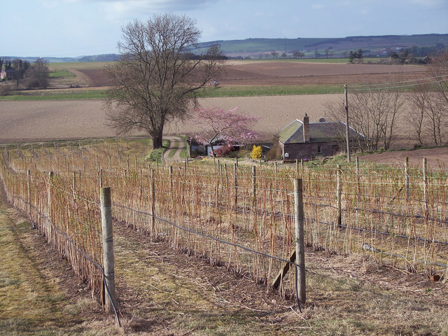 Raspberry Canes. This part of Perthshire, with its sandstone loam is the centre of the soft fruit industry that is restoring prosperity to the area.